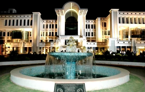 MRIU at night